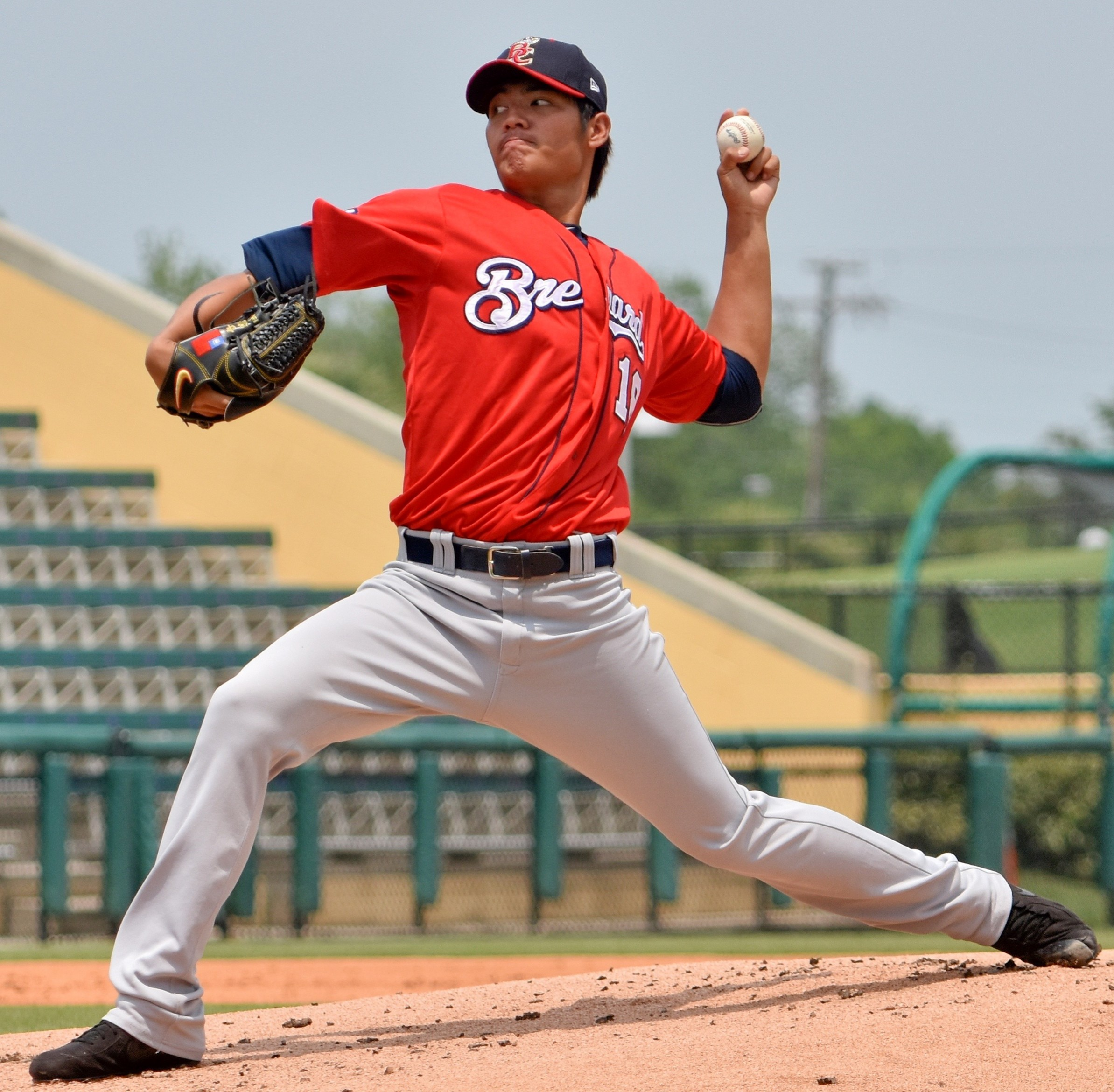 Wei-Chung Wang. Lakeland Flyin Tigers v. Brevard County Manatees. Joker Marchant Stadium. Lakeland, Fla. April 26, 2015. Photo by Tom Hagerty.